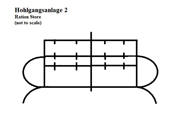 Plan of Ho2, a basic design